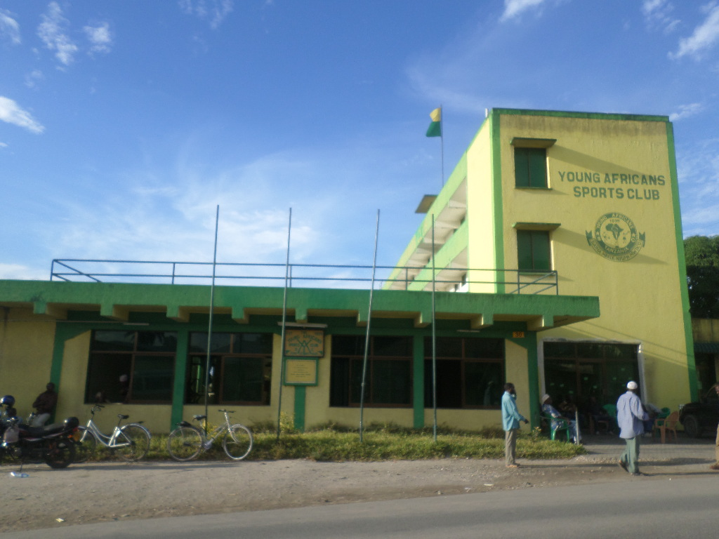 The Young Africans Sports Club building located between Twiga and Congo street in Dar es Salaam.